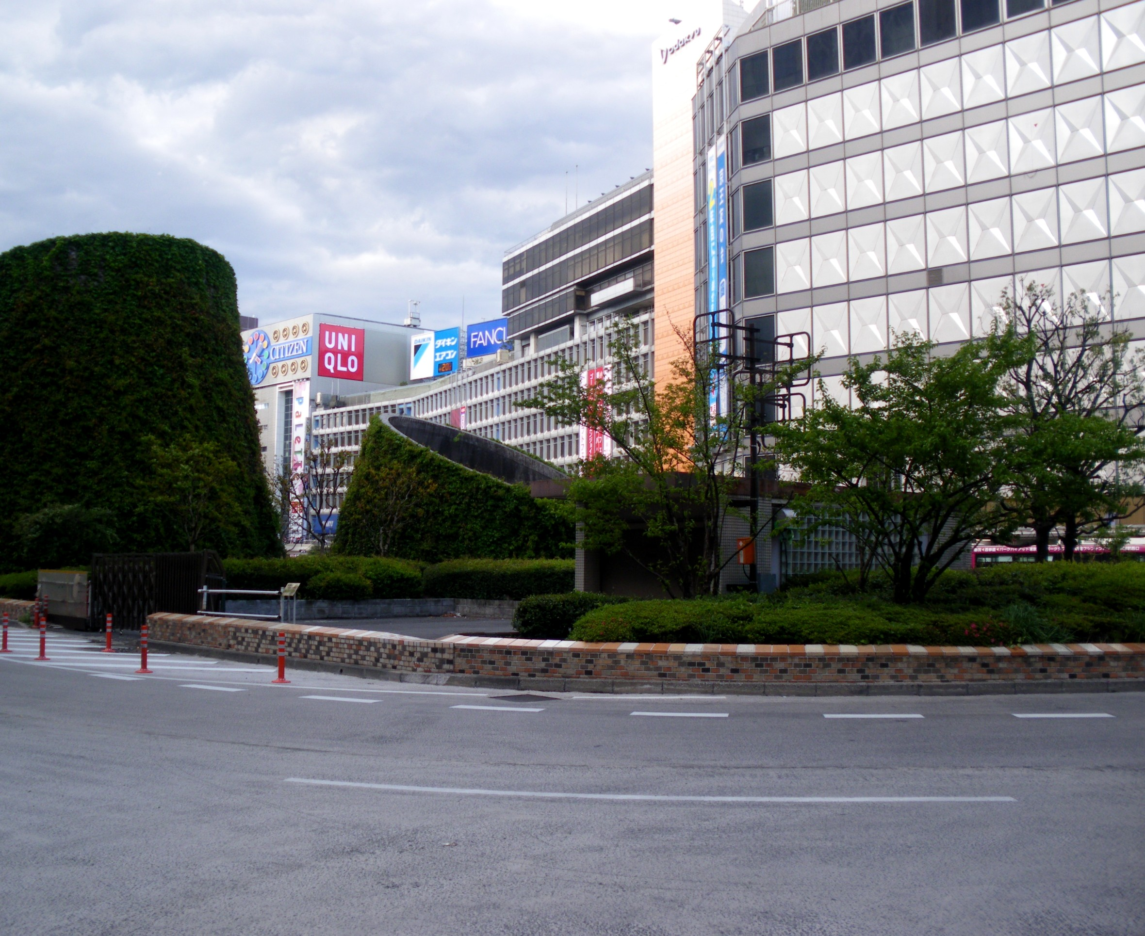 Former bus station of shinjuku station west exit.